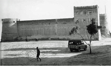 Al Fahidi Fort in the late fifties